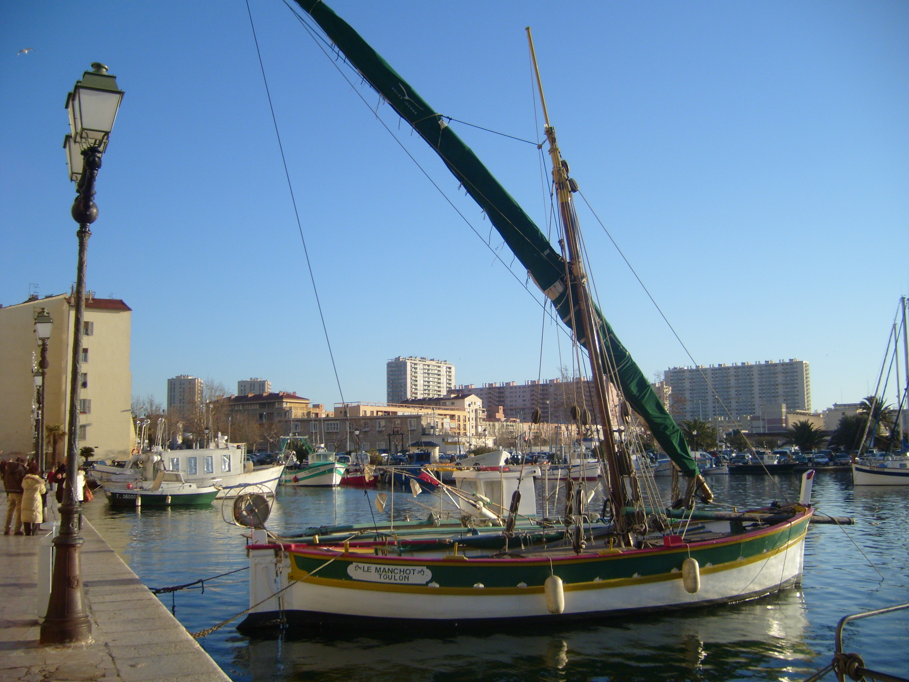 Traditional fishing boat Le Manchot in Toulon Harbor, restored by the "AVL" patrimonial society